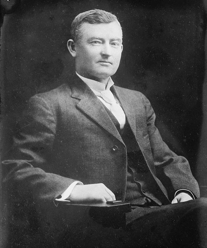 John Nance Garner, black and white photo portrait.